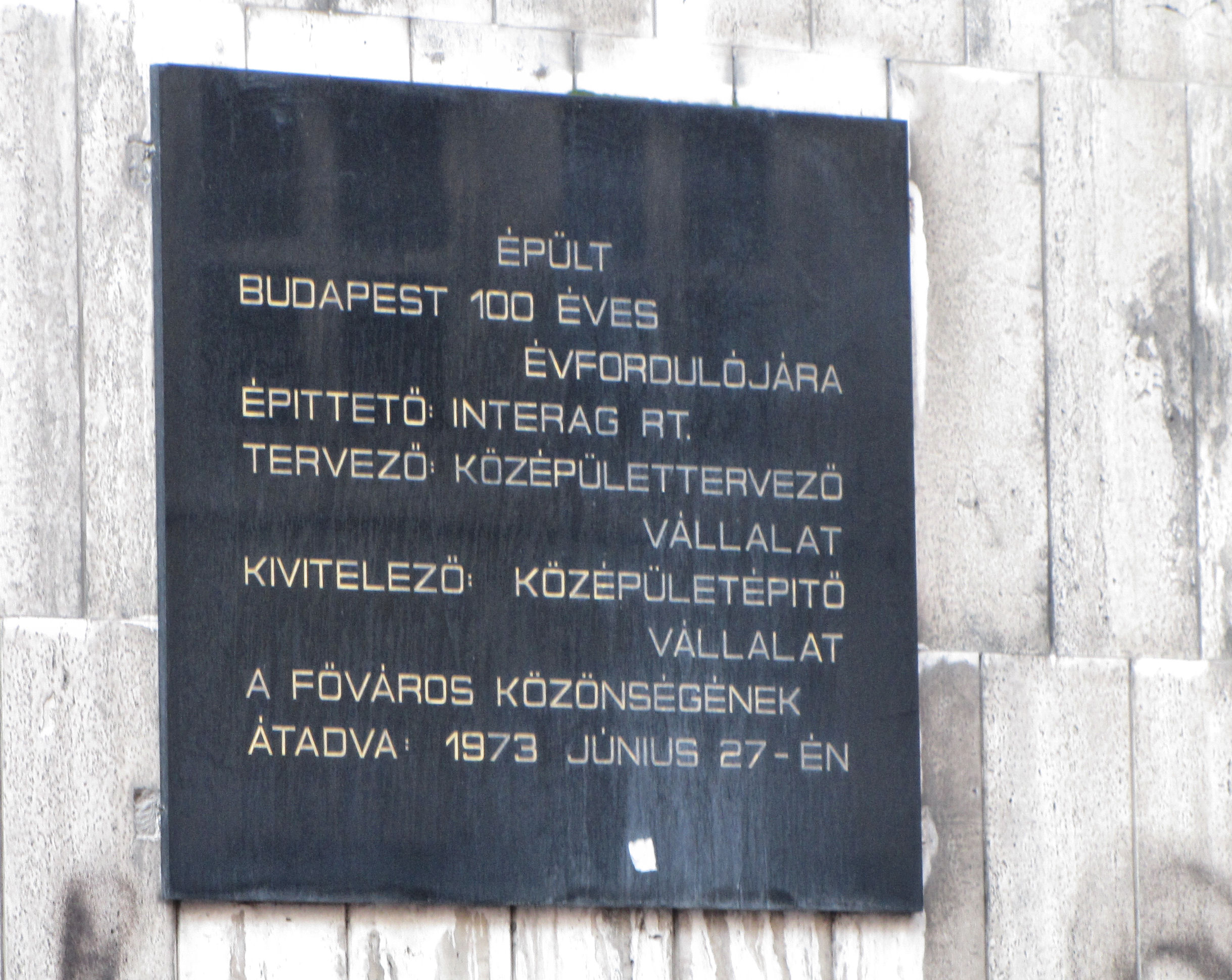 Memorial plaque on the wall of the garage building on Szervita tér, Budapest (Szervita Square No 8).